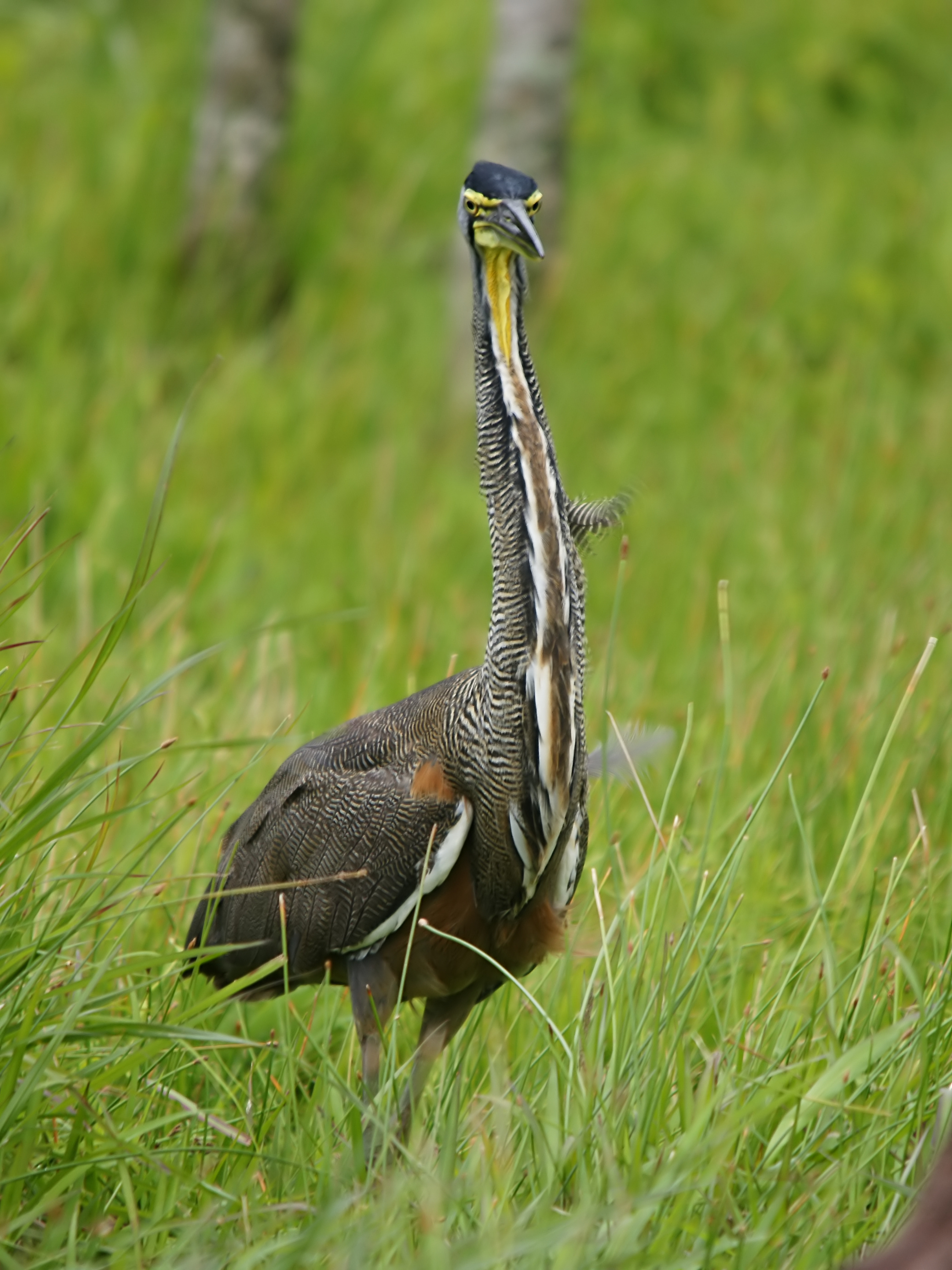 Bare-throated Tiger Heron at Rincon de la Vieja, Costa Rica